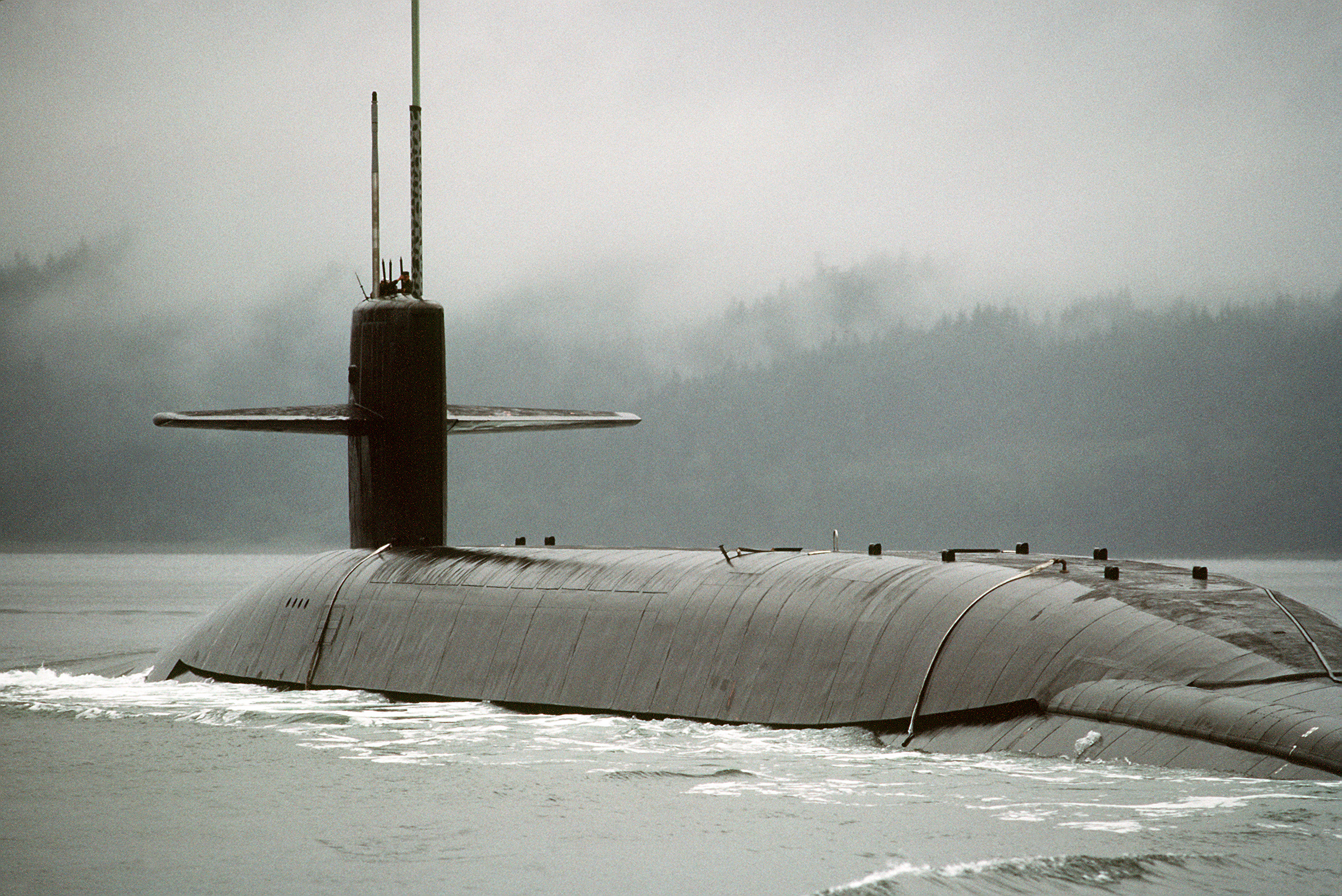 A port quarter view of the nuclear-powered strategic missile submarine USS OHIO (SSBN-726) as it transits the Hood Canal.